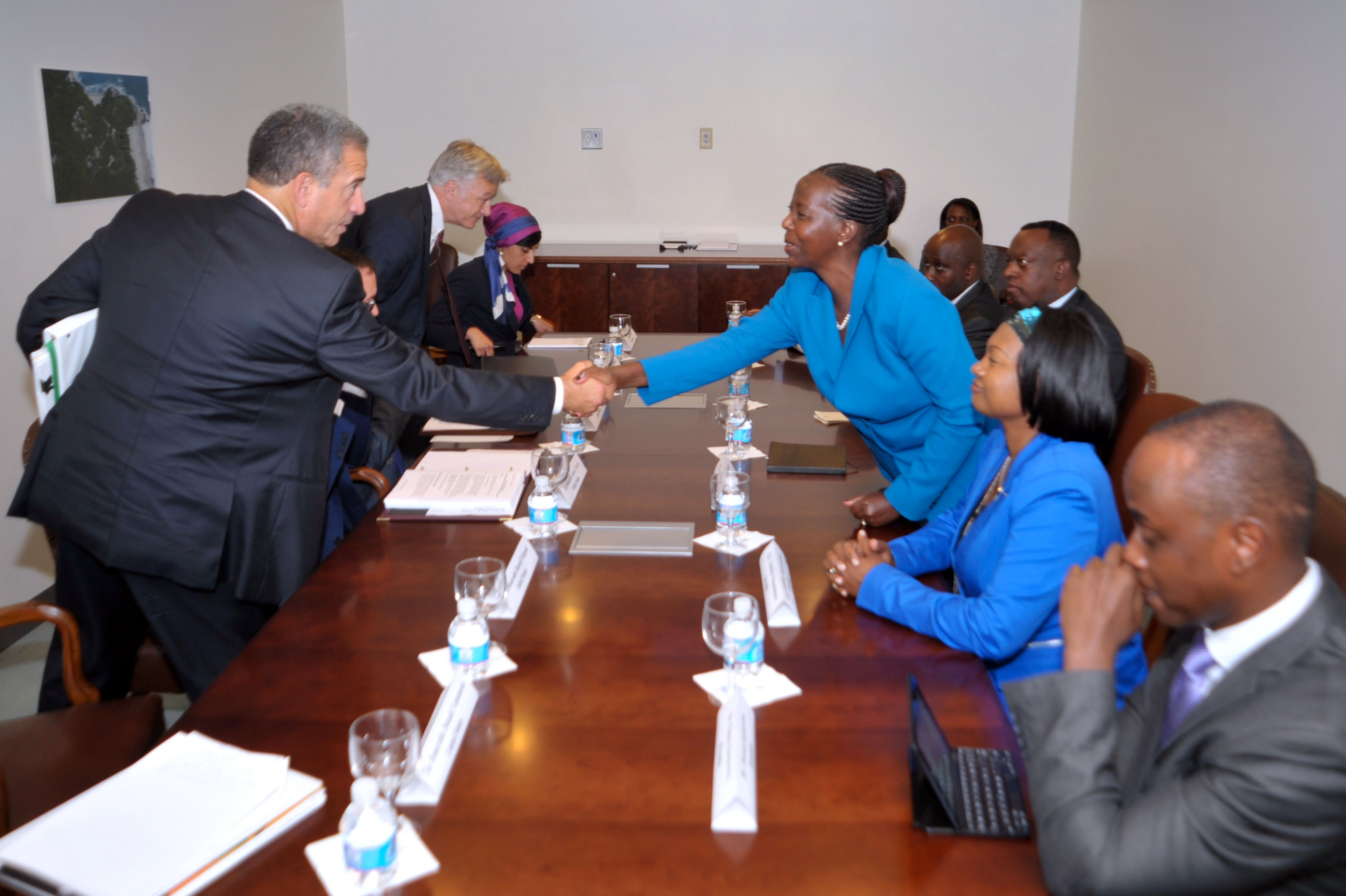 U.S. Special Envoy for Africa's Great Lakes region Russell Feingold greets Rwandan Foreign Minister Louise Mushikiwabo at the United Nations in New York on July 25, 2013. [State Department photo/ Public Domain]